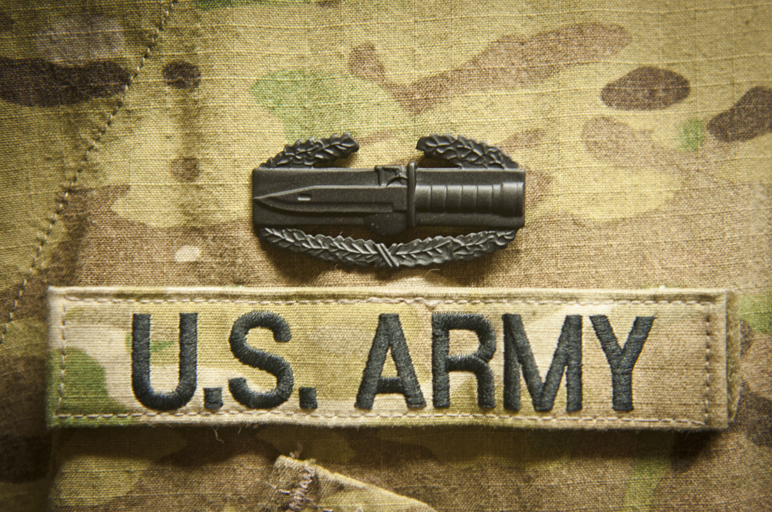 A Combat Action Badge is displayed on a multicam uniform minutes after the soldier received it. The CAB is awarded to soldiers who personally engage the enemy, or are engaged by the enemy in combat operations. (U.S. Army photo by Sgt. Ken Scar, 7th Mobile Public Affairs Detachment)